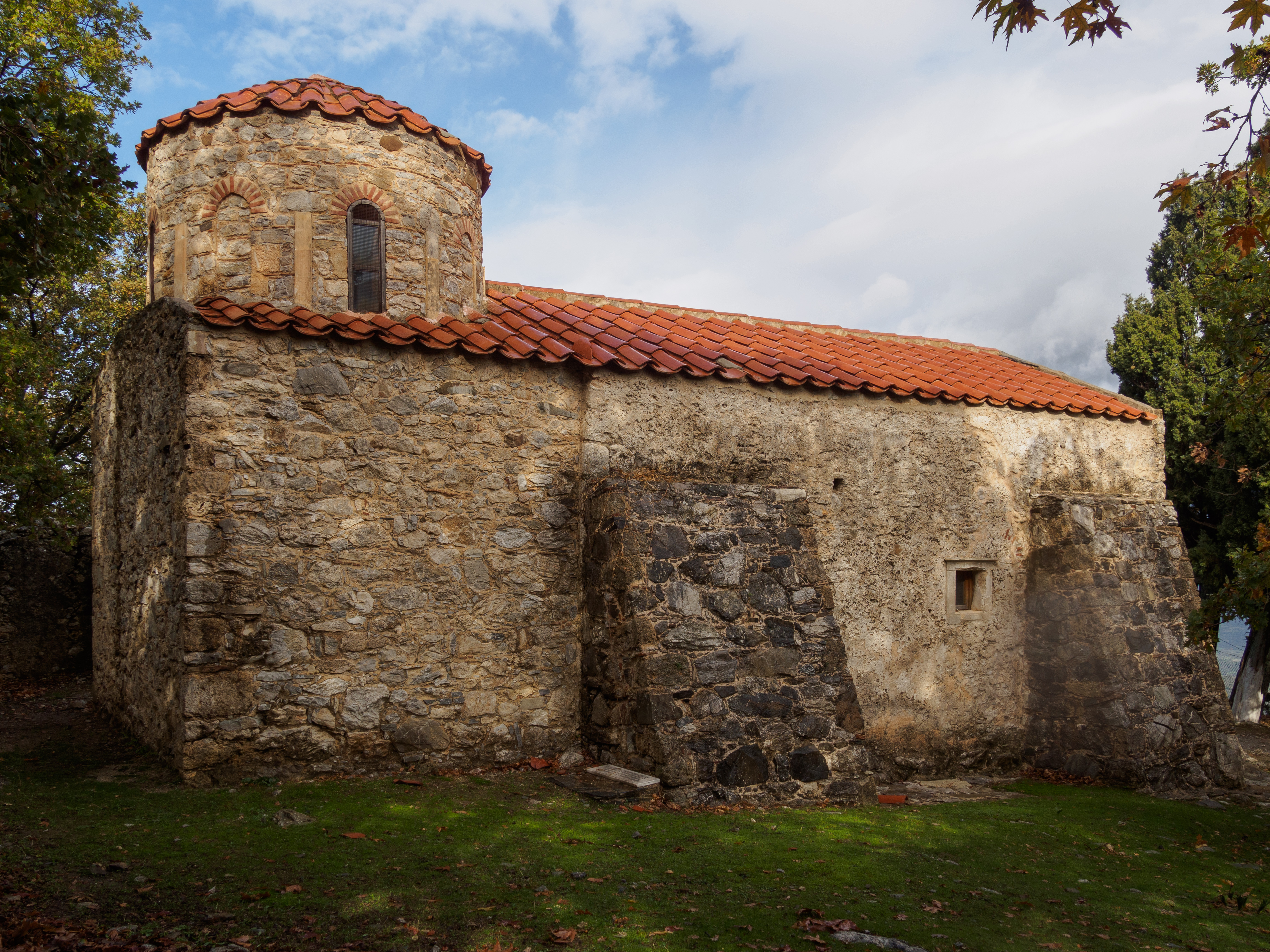 The church of the defunct Kaloidena monastery, above Ano Meros, Amari.